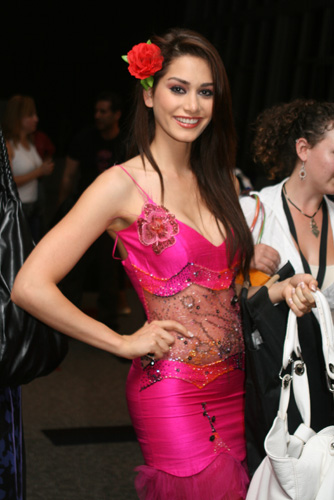 Miss Peru 2008 Annmarie Dehainaut during Miss World 08